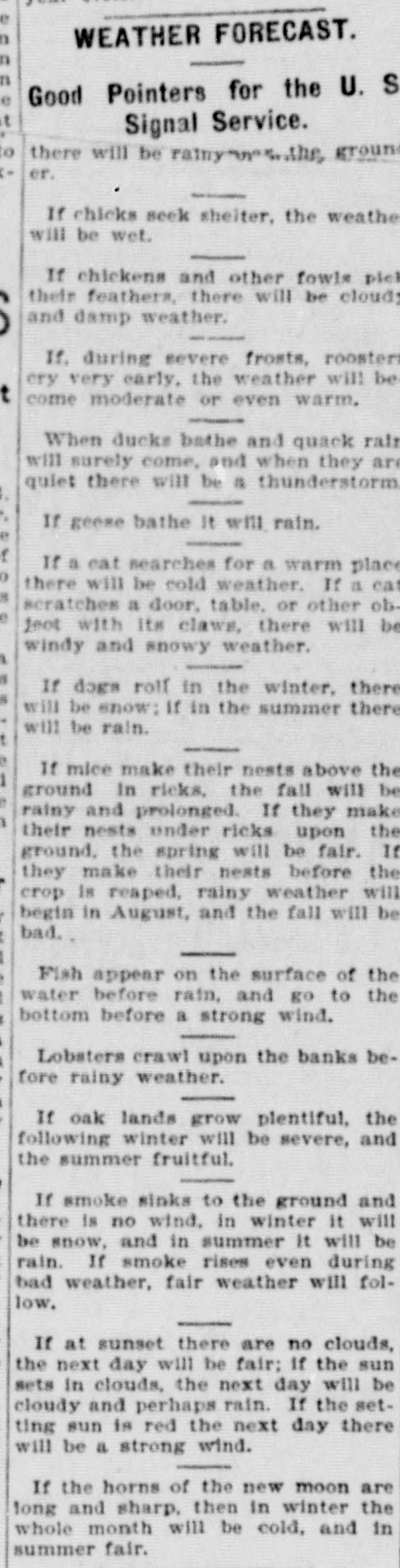 This column of text from the 1899 Seattle Star features several historic examples of weather lore. Text: WEATHER FORECAST. Good Pointers for the U.S. Signal Service [unintelligible text] If chicks seek shelter, the weather will be wet. If chickens and other fowls pick their feathers, there will be cloudy and damp weather. If, during severe frosts, roosters cry very early, the weather will become moderate or even warm. When ducks bathe and quack rain will surely come, and when they are quiet there will be a thunderstorm. If geese bathe it will rain. If a cat searches for a warm place there will be cold weather. If a cat scratches a door, table, or other object with its claws, there will be windy and snowy weather. If dogs roll in the winter, there will be snow; if in the summer there will be rain. If mice make their nests above the ground in ricks, the fall will be rainy and prolonged. If they make their nests under ricks upon the ground, the spring will be fair. If they make their nests before the crop is reaped, rainy weather will begin in August, and the fall will be bad. Fish appear on the surface of the water before rain, and go to the bottom before a strong wind. Lobsters crawl upon the banks before rainy weather. If oak lands grow plentiful, the following winter will be severe, and the summer fruitful. If smoke sinks to the ground and there is no wind, in winter it will be snow, and in summer it will be rain. If smoke rises even during bad weather, fair weather will follow. If at sunset there are no clouds, the next day will be fair; if the sun sets in clouds, the next day will be cloudy and perhaps rain. If the setting sun is red the next day there will be strong wind. If the horns of the new moon are long and sharp, then in winter the whole month will be cold, and in summer fair.